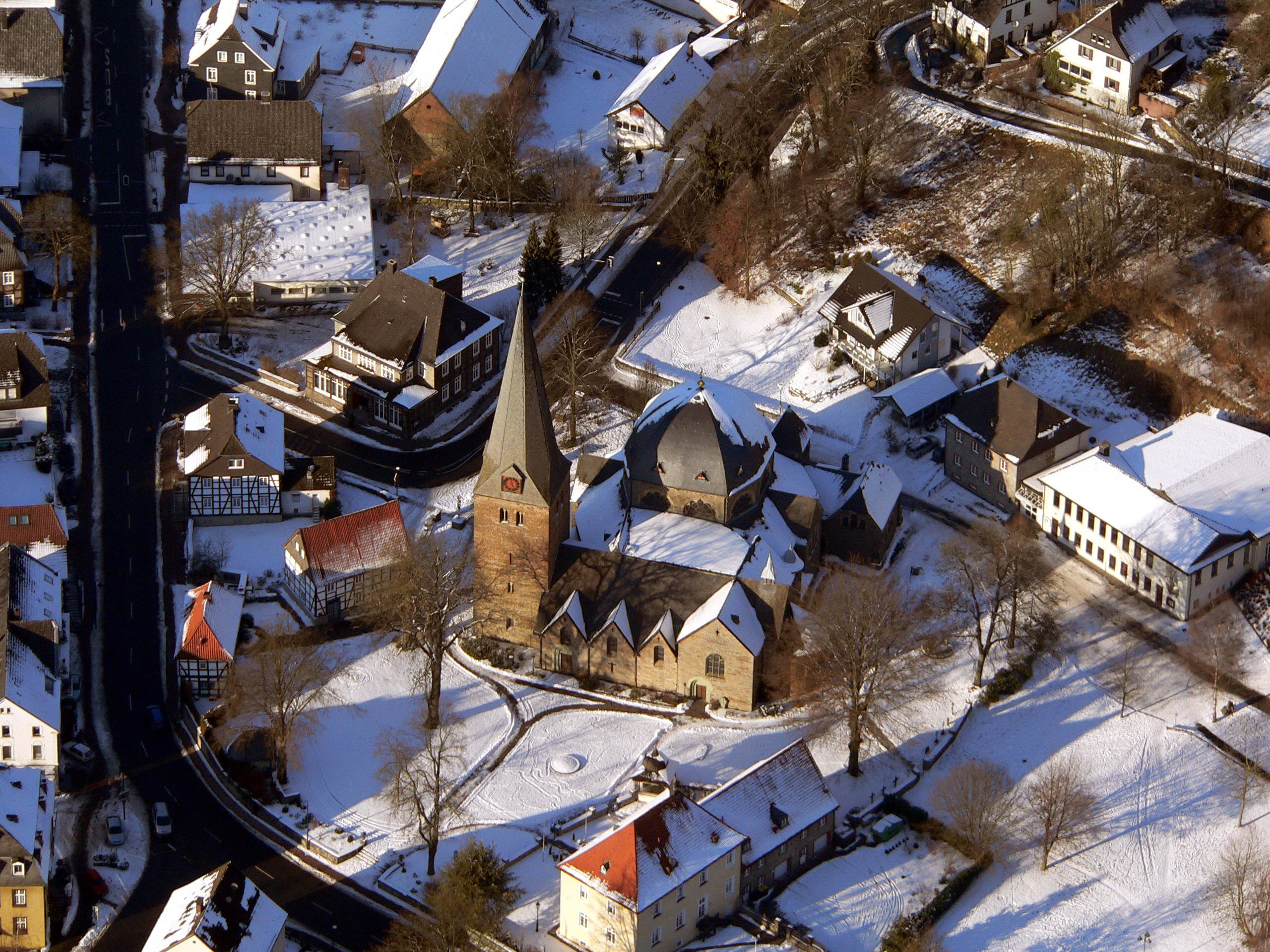 St.Blasius church, Balve